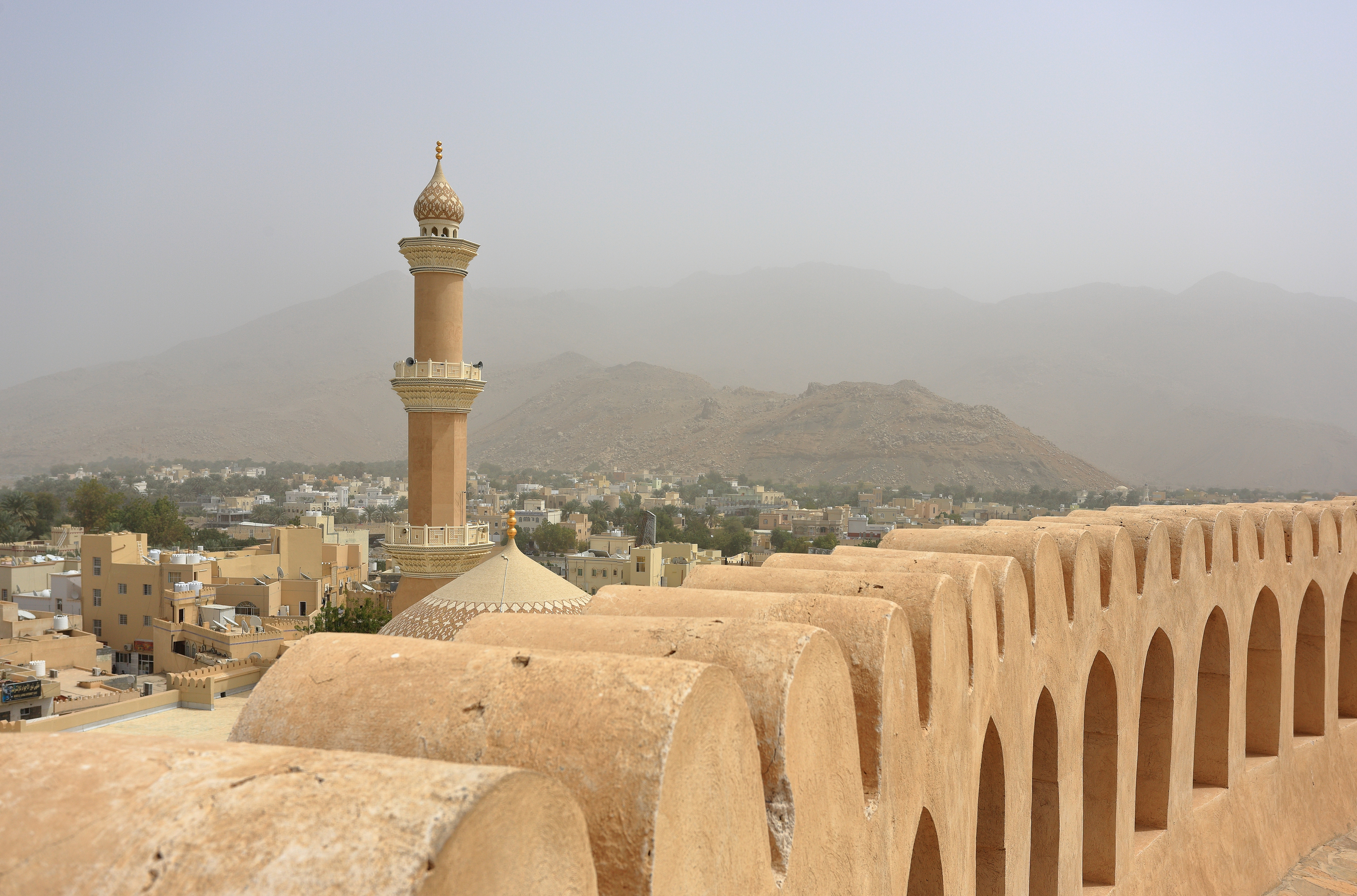 The minaret of Friday Mosque as seen from Nizwa Fort, Nizwa, Oman.